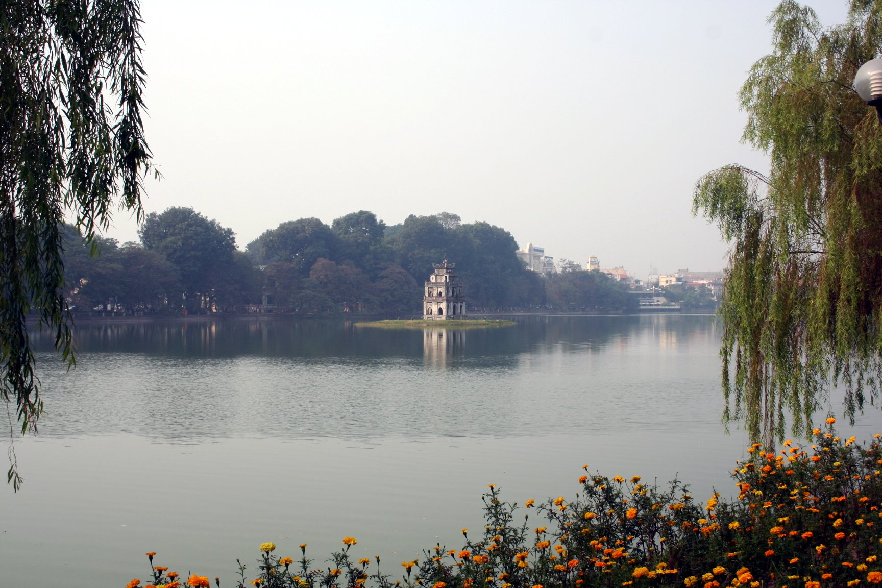 Photograph of Hoan Kiem Lake with the Turtle Tower (Thap Rua) in the center.